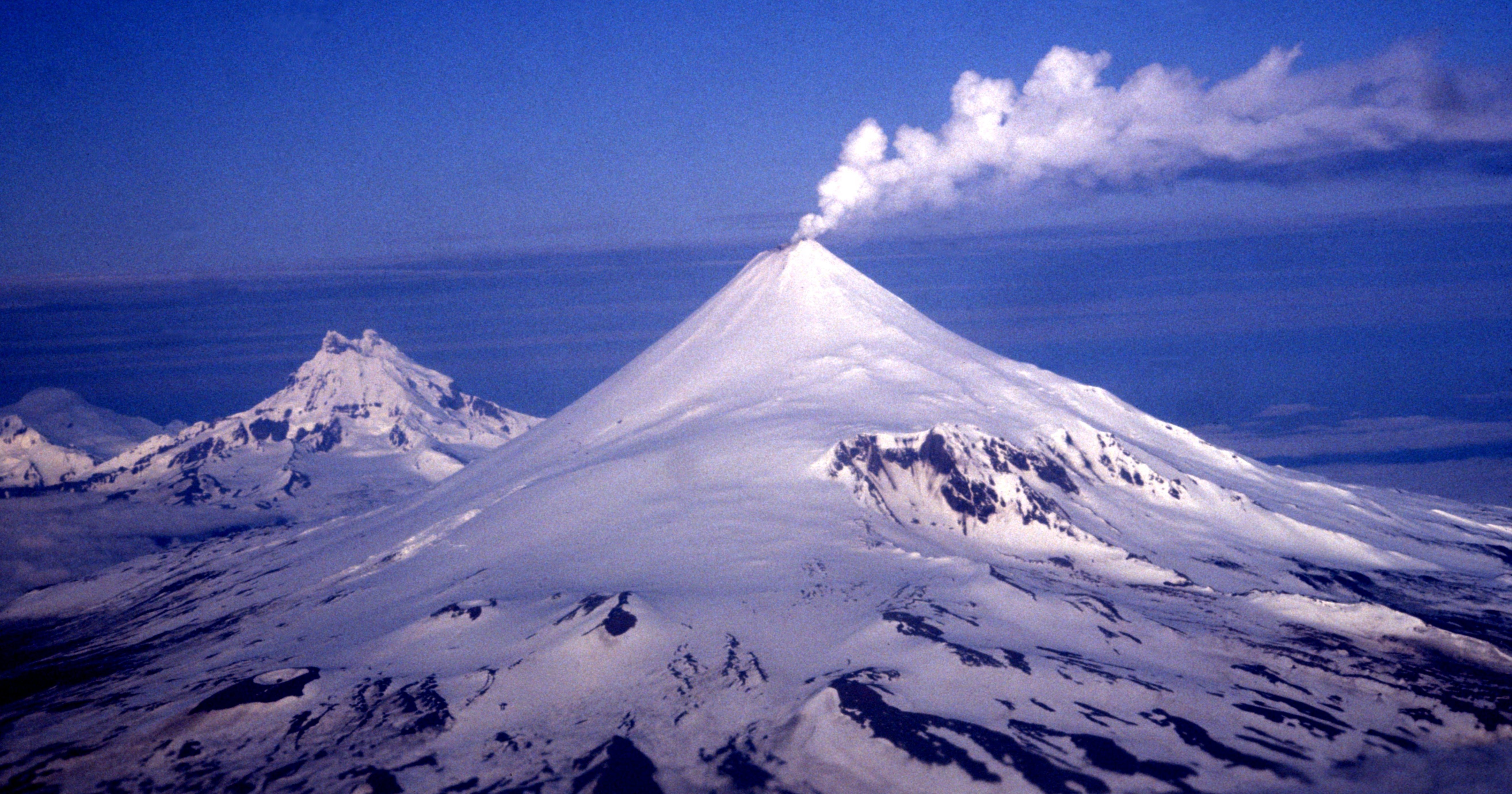 Shishaldin, Isanotski, and Roundtop Volcanoes lined up in a row on a rare crystal clear Aleutian day. Alaska, Aleutian Islands.